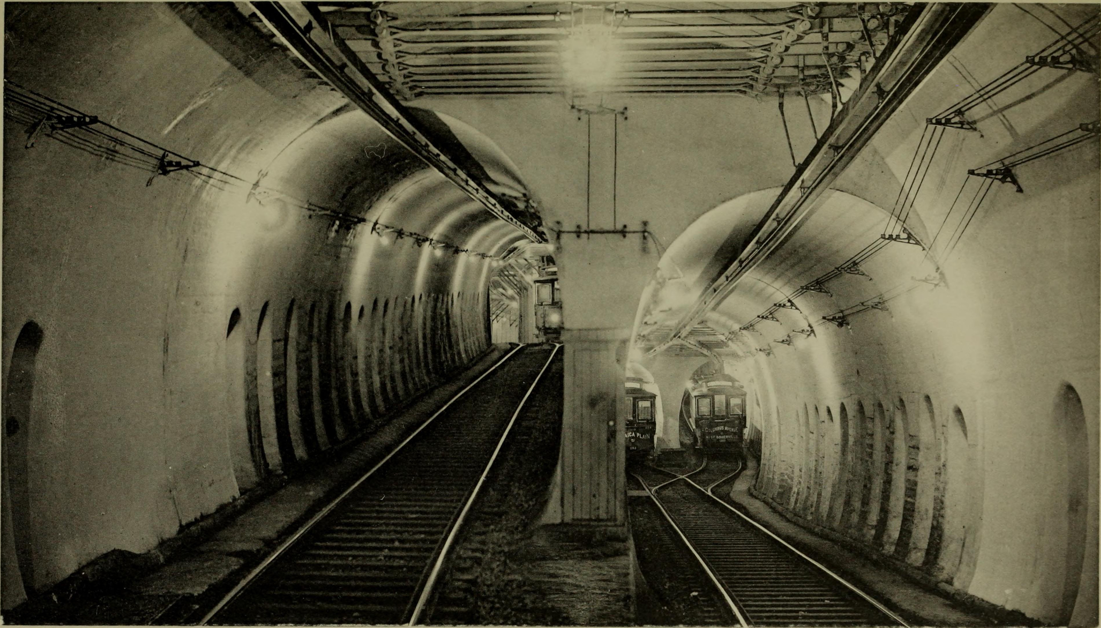 Looking south at the bellmouth to the Pleasant Street Portal. The left side is inbound tracks and the right side outbound, with trams to Columbus Avenue and Jamaica Plain.The original description from the 1898 Boston Transit Commission annual report was as follows: SECTION 4--BELLMOUTHS, FOUR-TRACKS, AND SUB-SUBWAY UNDER TREMONT STREET, NEAR HOLLIS STREET (LOOKING SOUTH).